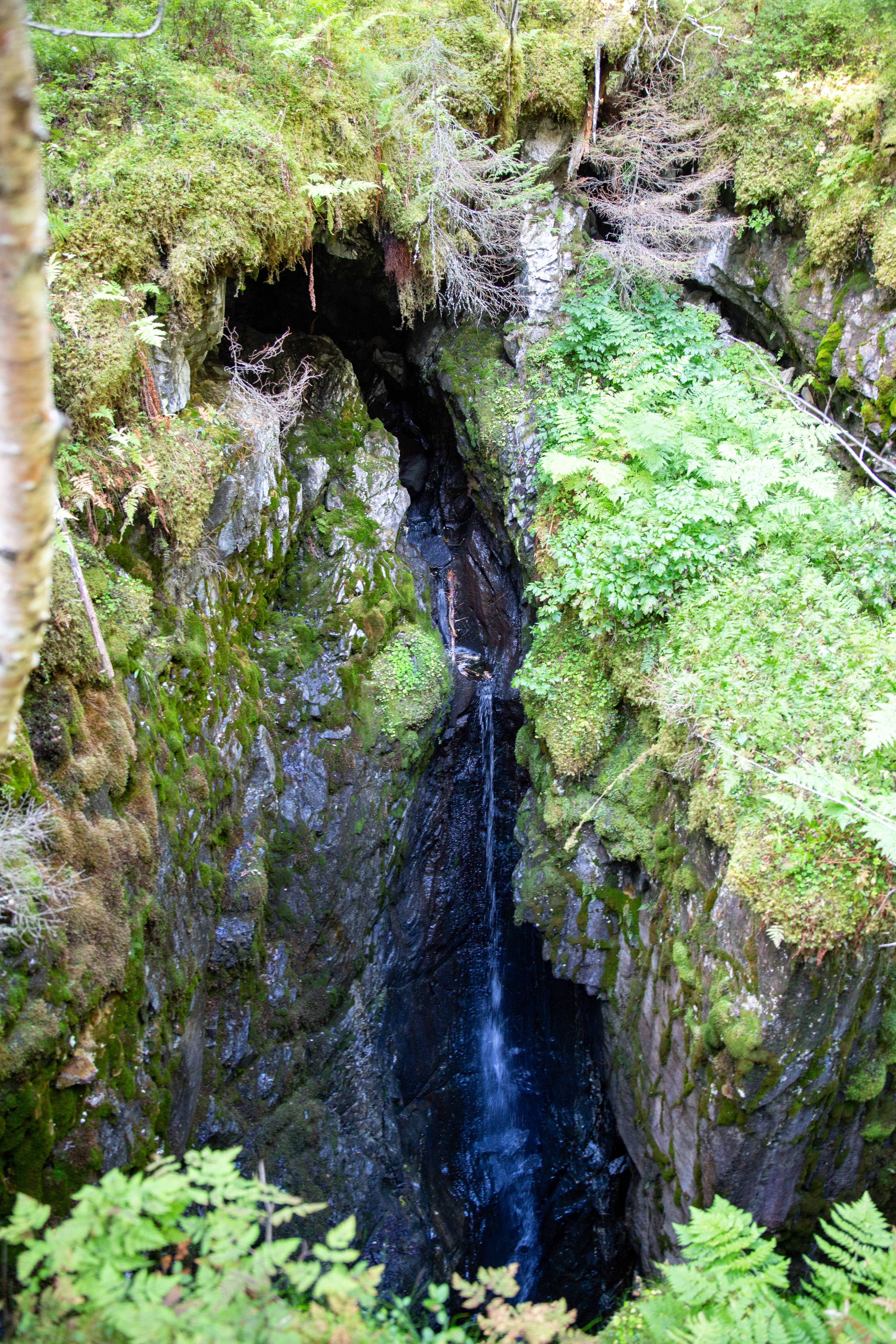 Storhølet a natural pit formed by a small river. Upper and lower Ramsåsgrotte, a natural cavern, can be found upstream and downstream of Storhølet, respectively.